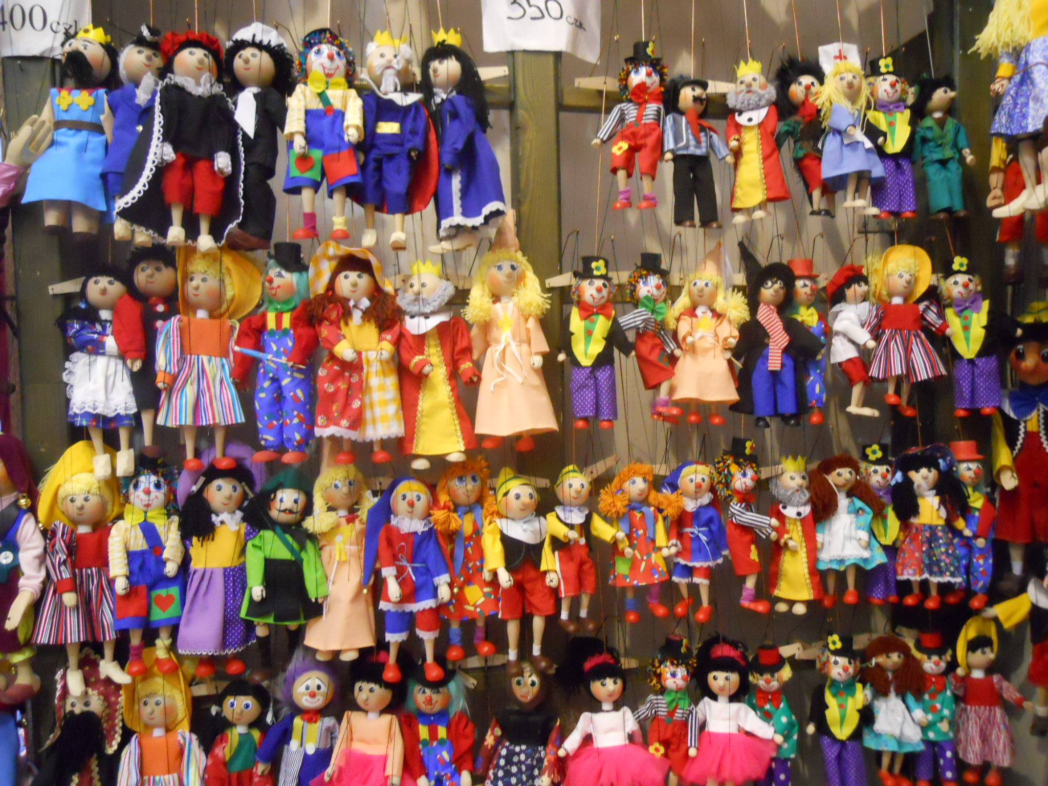 Marinettes in a shop in Prague